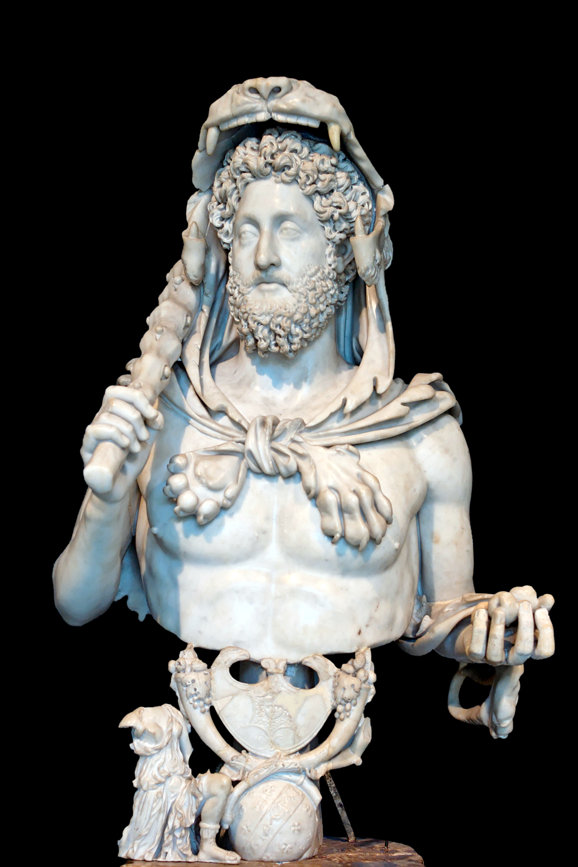 Bust of Commodus as Hercules, hence the lion skin, the club and the golden apples of the Hesperides. Part of a statuary group representing Commodus' apotheosis. Roman artwork.